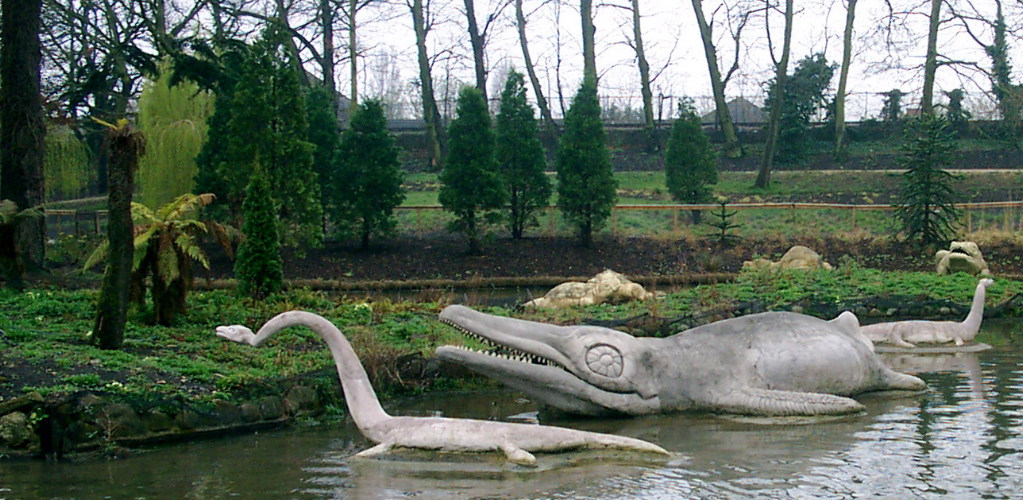 Crystal Palace Park, London - Victorian Dinosaurs